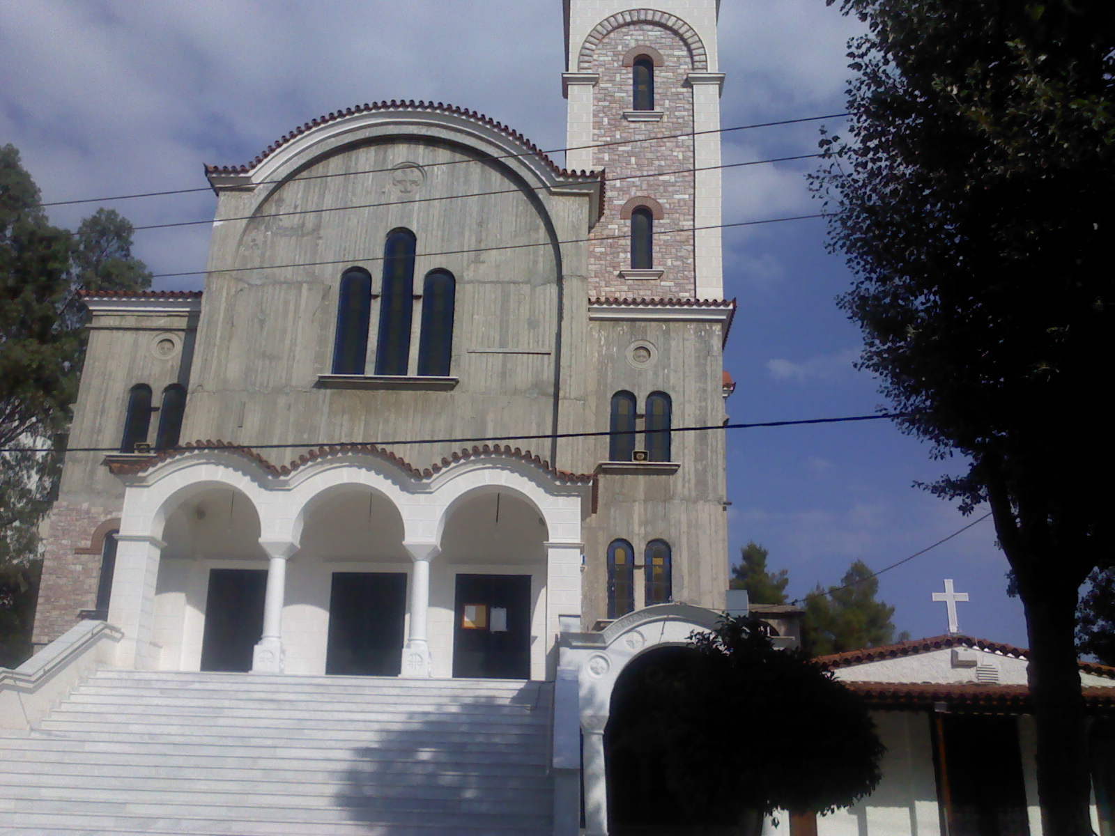 Ieros Naos Ipapantis Sotiros Agia Filothei Marousi